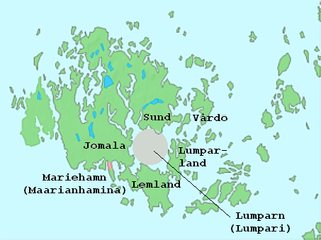 Lumparn bay, Åland, Finland, with the impact structure area marked